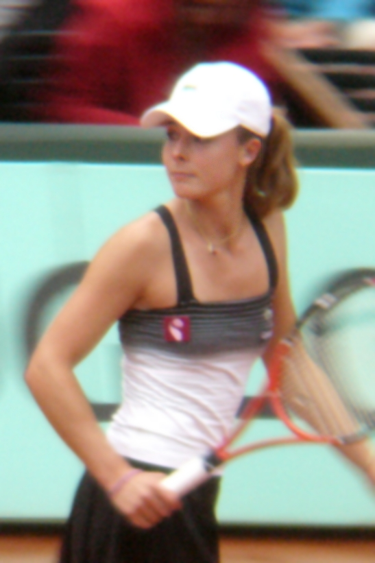 Alizé Cornet, Roland Garros 2008